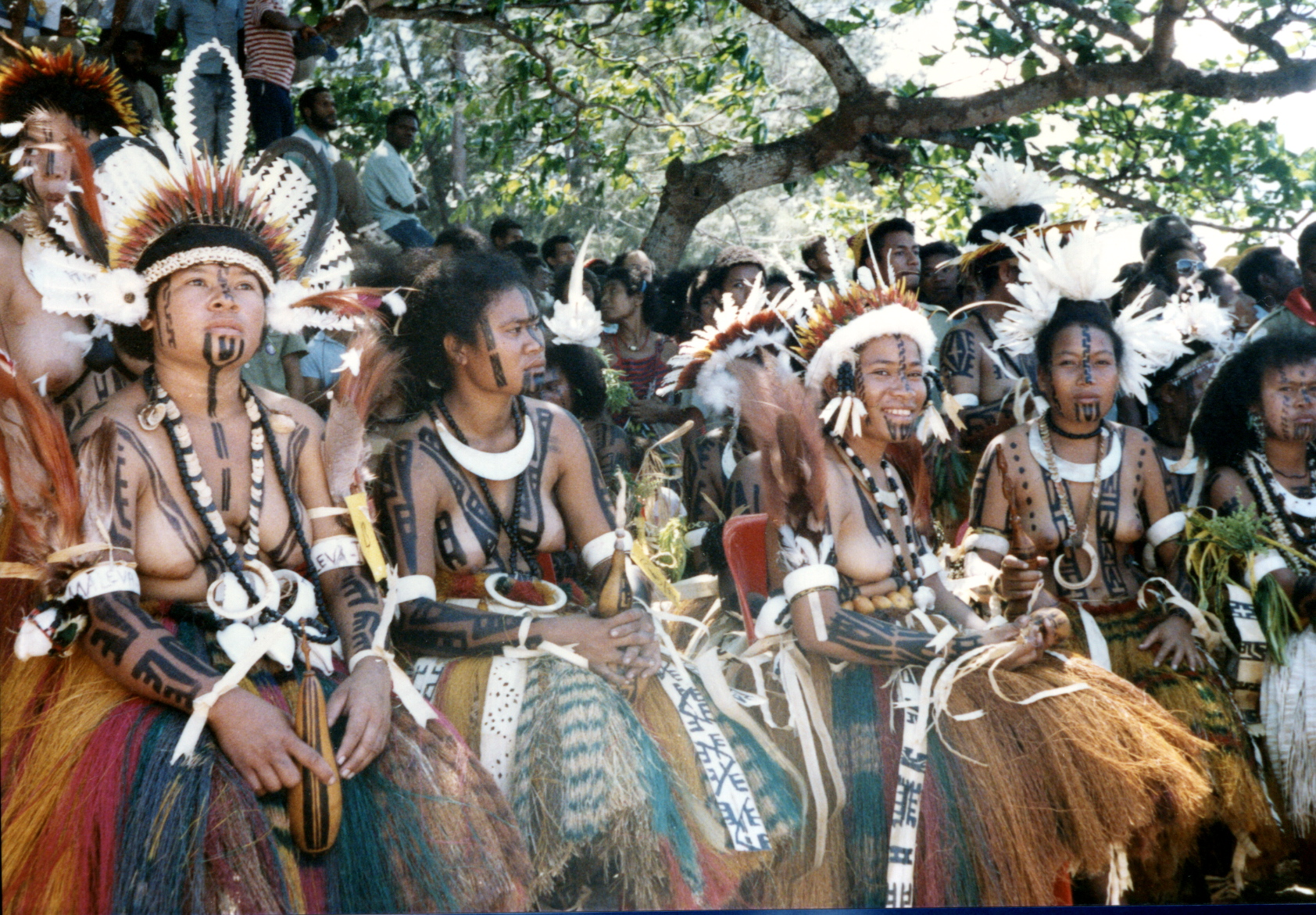 Welcoming Party, Dancers at the Hiri Moale festival in Port Moresby